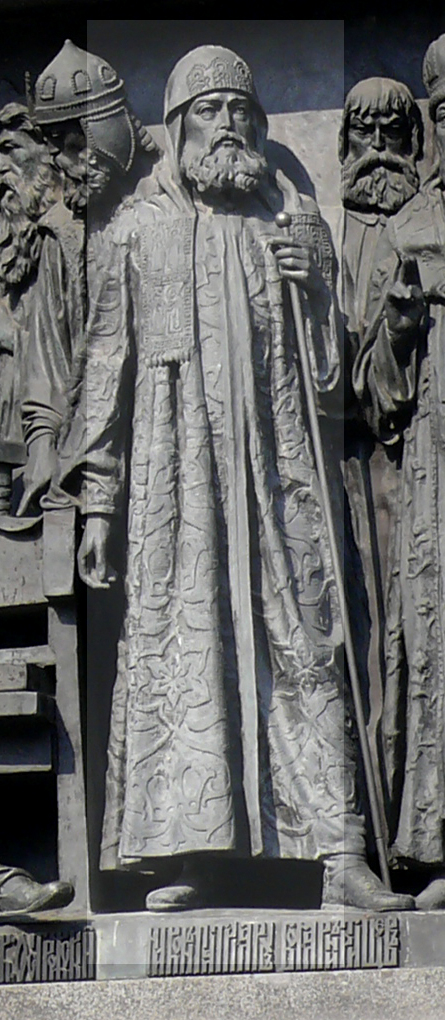 Patriarch Nikon on the Monument "Millennuim of Russia" in Veliky Novgorod